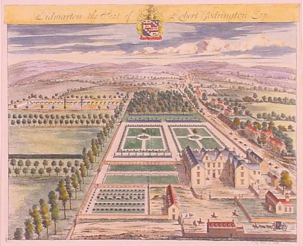 Copper engraving, 'Didmarton the Seat of Robert Codrington, Esq.', from Britannia Illustrata, or Views of Several of the Queens Palaces also of the Principal Seats of the Nobility and Gentry of Great Britain (London, 1709)